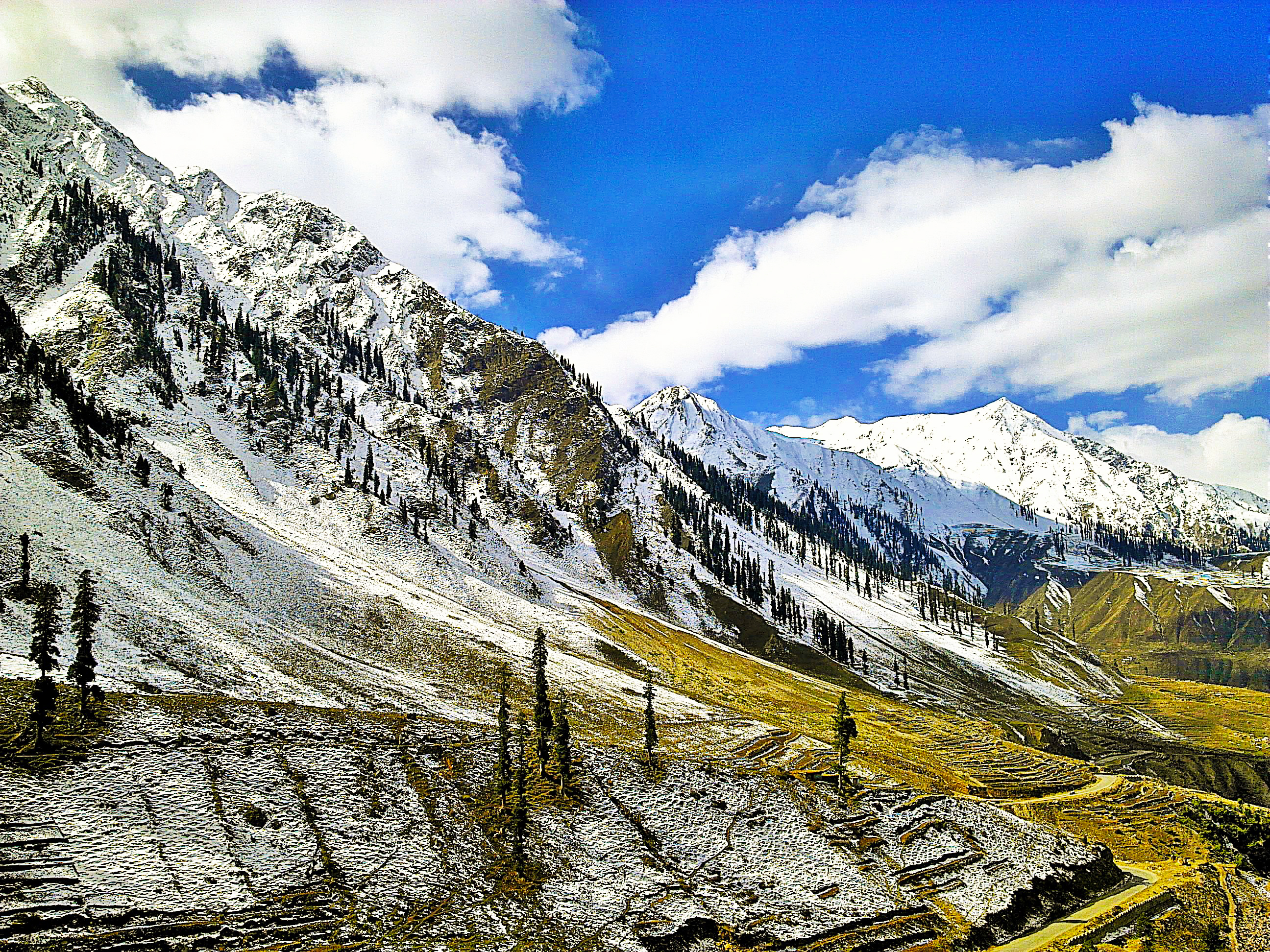 Jalkhand, near Naran Valley, KPK, Pakistan.